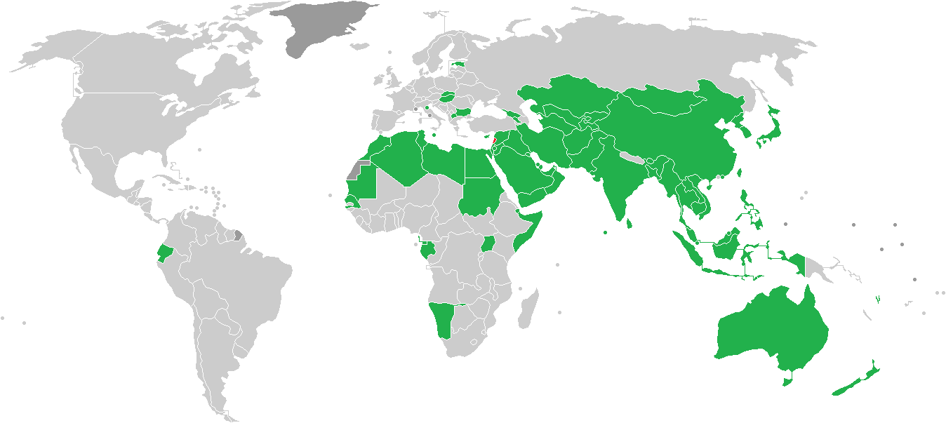 Map of official international association football matches between Lebanon (indicated in red) and their opponents (indicated in green)